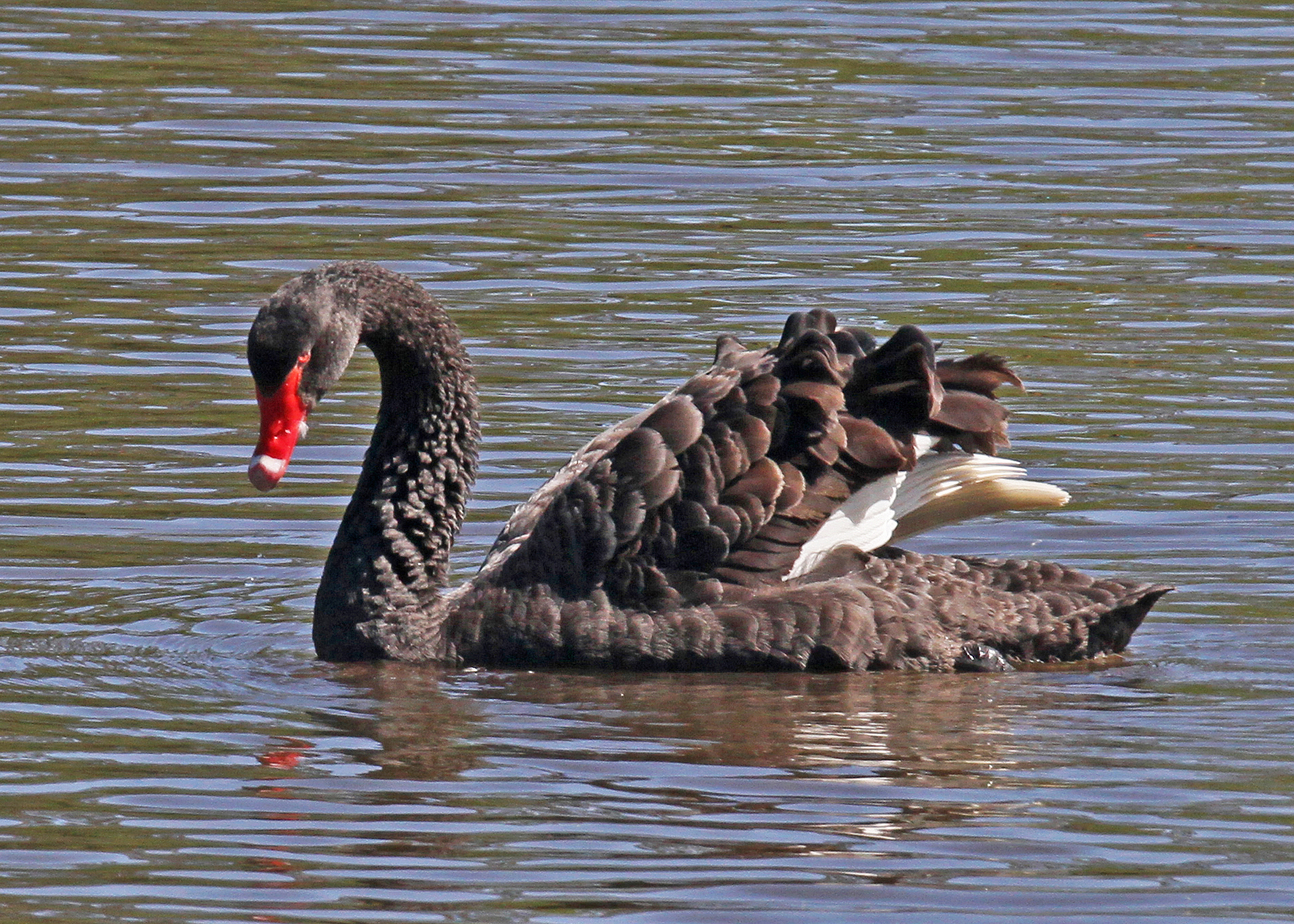 photo of Black Swan